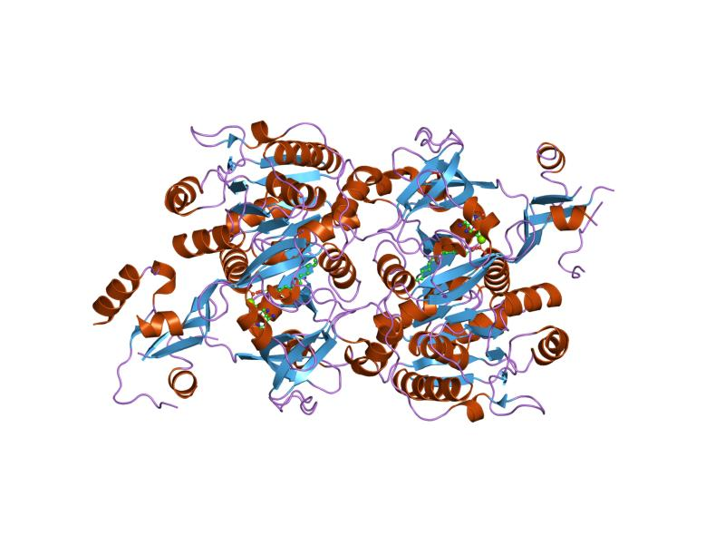 Cartoon representation of the molecular structure of protein registered with 1v26 code.